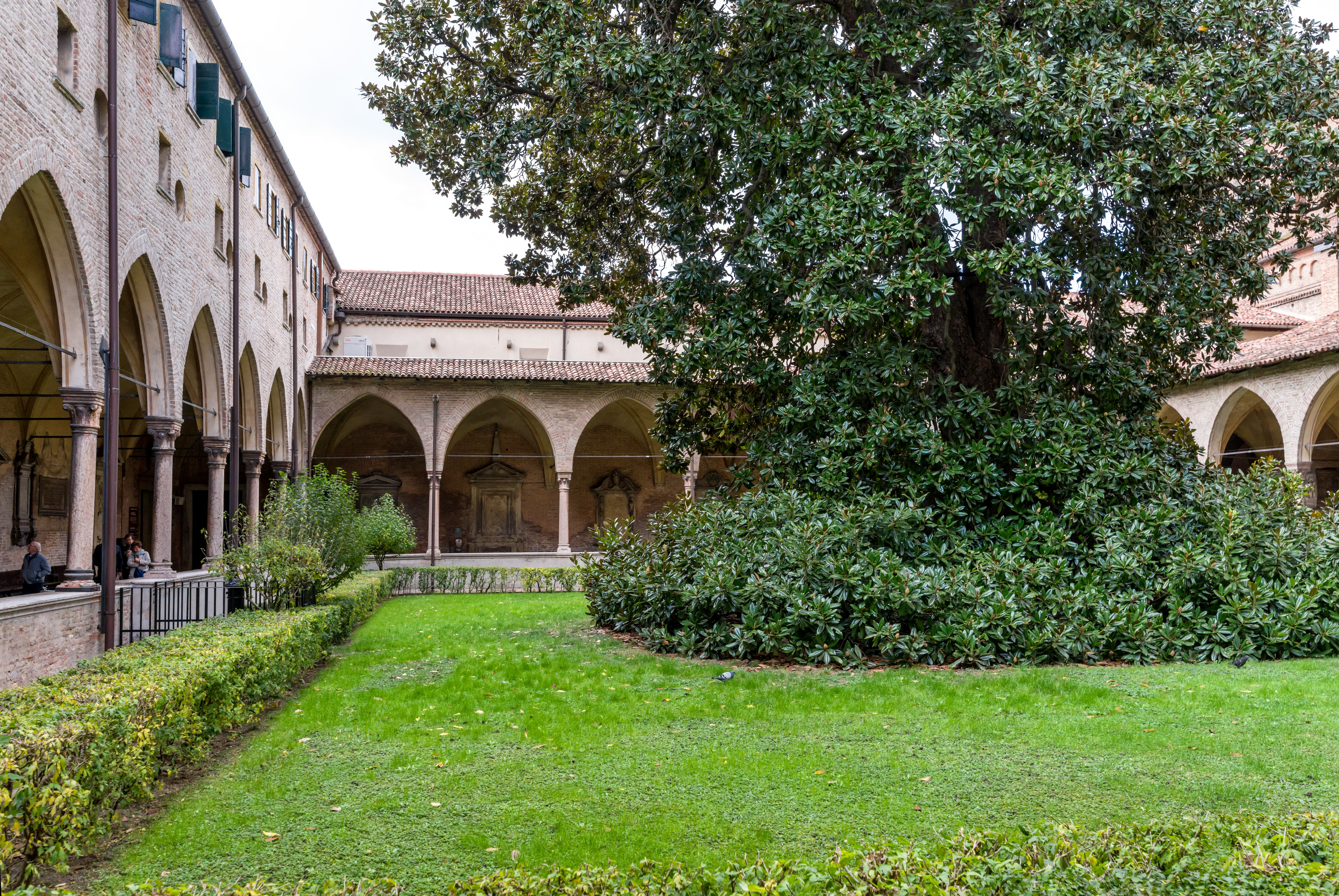 A stroll through Padua